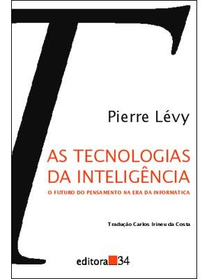 Capa do livro "As tecnologias da inteligência."